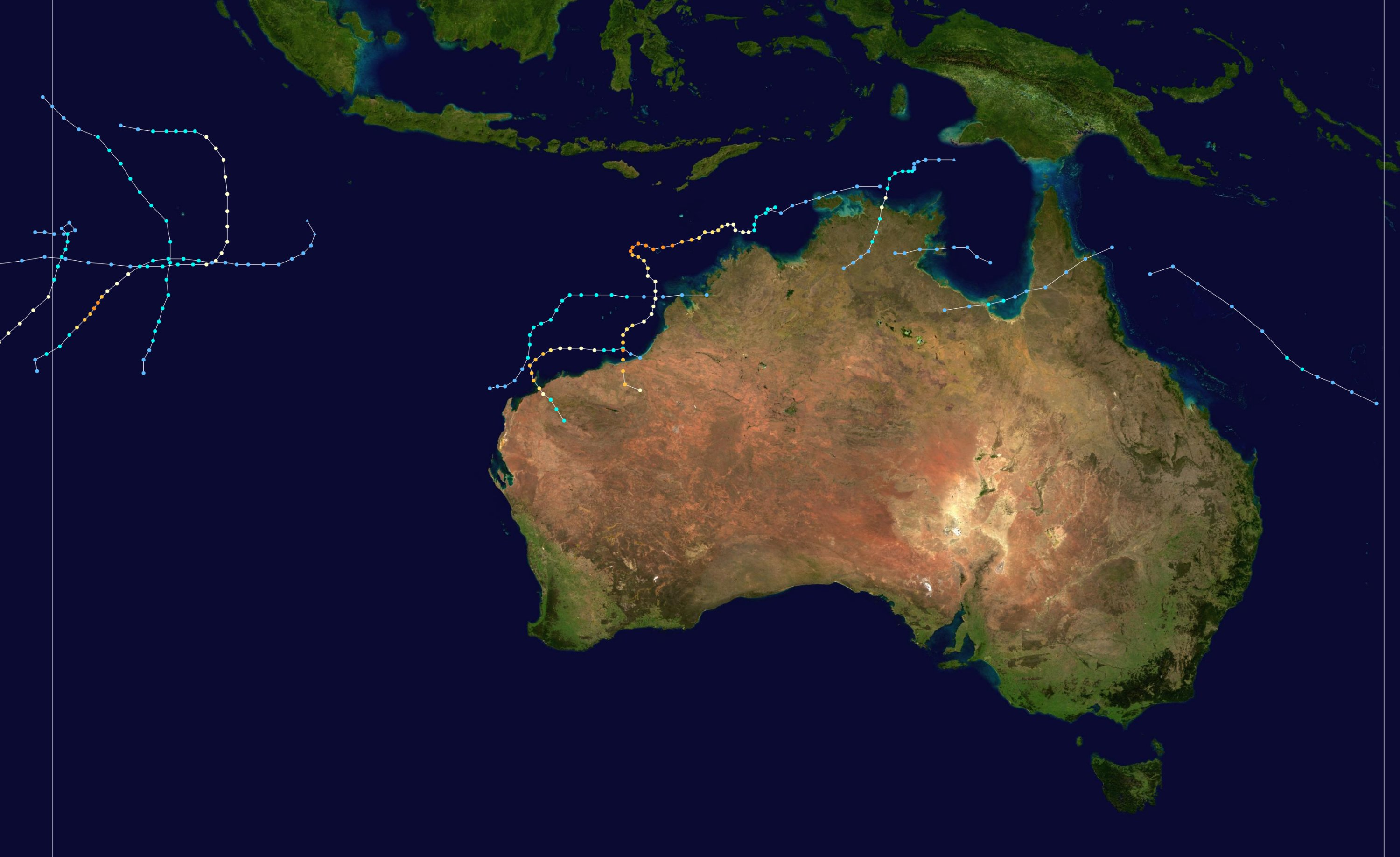 This map shows the tracks of all tropical cyclones in the 2003-04 Australian region cyclone season. The points show the location of each storm at 6-hour intervals. The colour represents the storm's maximum sustained wind speeds as classified in the Saffir-Simpson Hurricane Scale (see below), and the shape of the data points represent the type of the storm. Saffir–Simpson hurricane wind scale Tropical depression≤38 mph≤62 km/h Category 3111–129 mph178–208 km/h Tropical storm39–73 mph63–118 km/h Category 4130–156 mph209–251 km/h Category 174–95 mph119–153 km/h Category 5≥157 mph≥252 km/h Category 296–110 mph154–177 km/h Unknown Storm typeTropical cycloneSubtropical cycloneExtratropical cyclone / Remnant low / Tropical disturbance